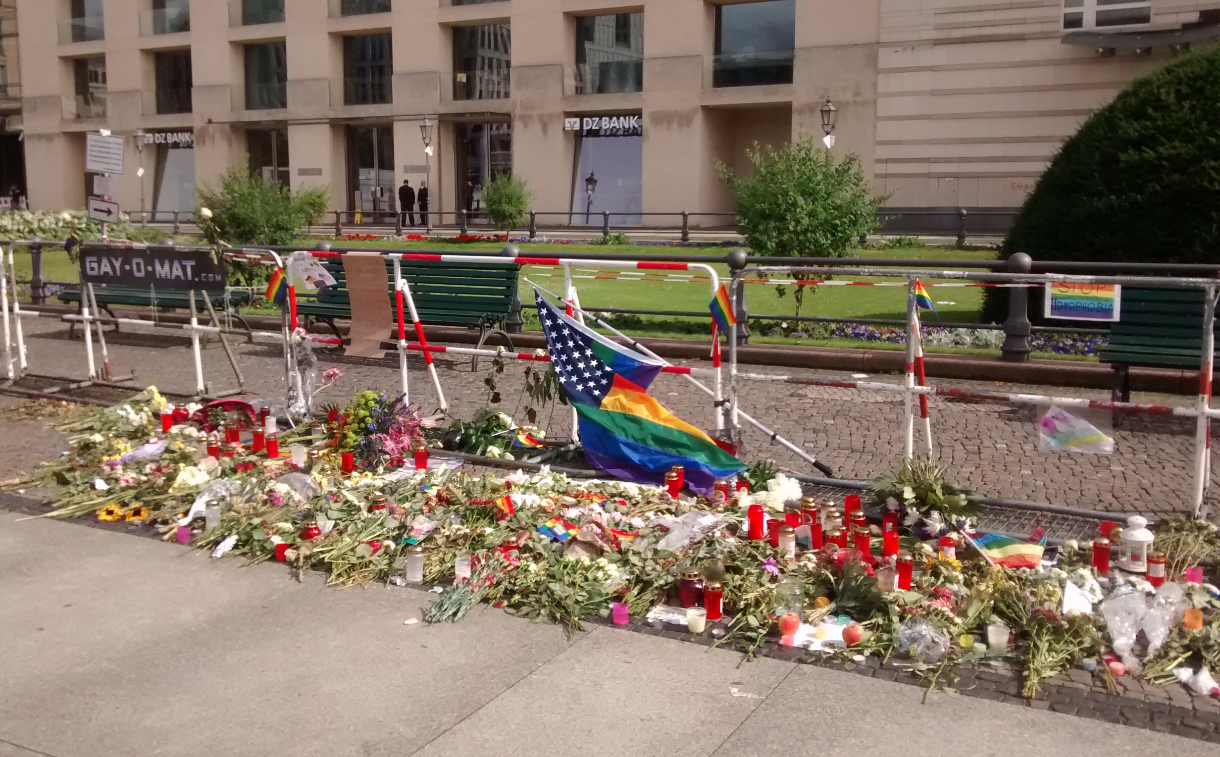 Flowers, flags, messages, candles, and other things in front of the US embassy in Berlin, in memory of the victims of the 2016 Orlando nightclub shooting.